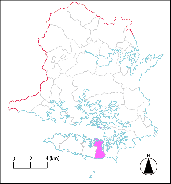 This is the map of Shimacho-Fuseda, Shima, Mie, Japan.